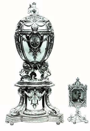 Faberge Egg "Danish Jubilee Egg". Disappeared after Russian Revolution